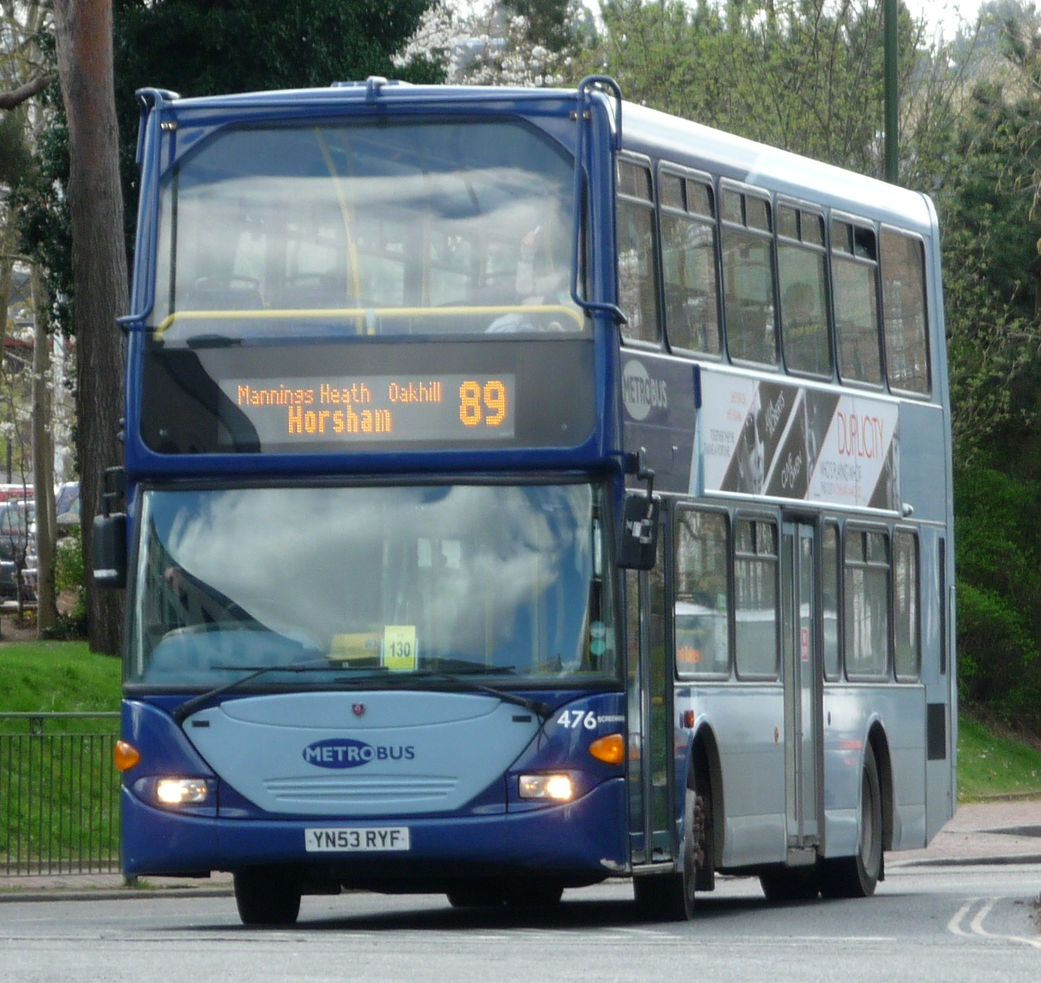 Metrobus 476 (YN53 RYF), a Scania N94 OmniDekka, arriving at Horsham bus station, on route 89.